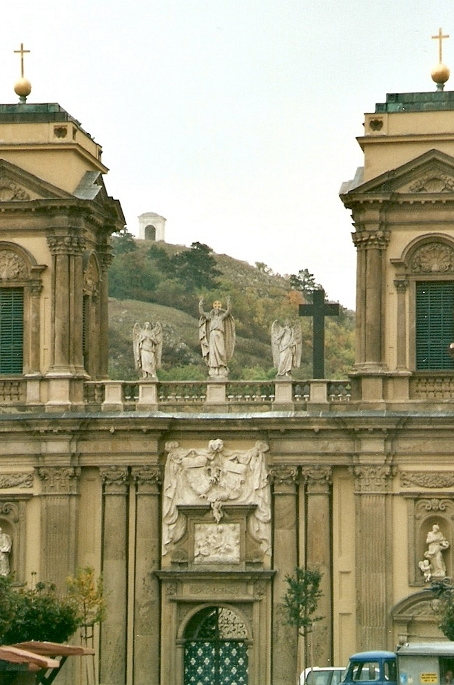 Mikulov (Nikolsburg) a town in Břeclav district, Moravia, Czech Republic. The Dietrichstein tomb, detail.